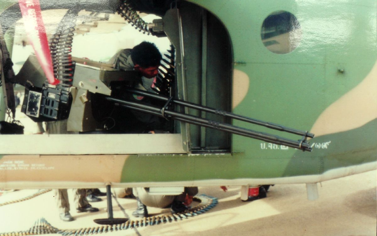 Fairchild AU-23A Peacemaker with XM197 20mm cannon